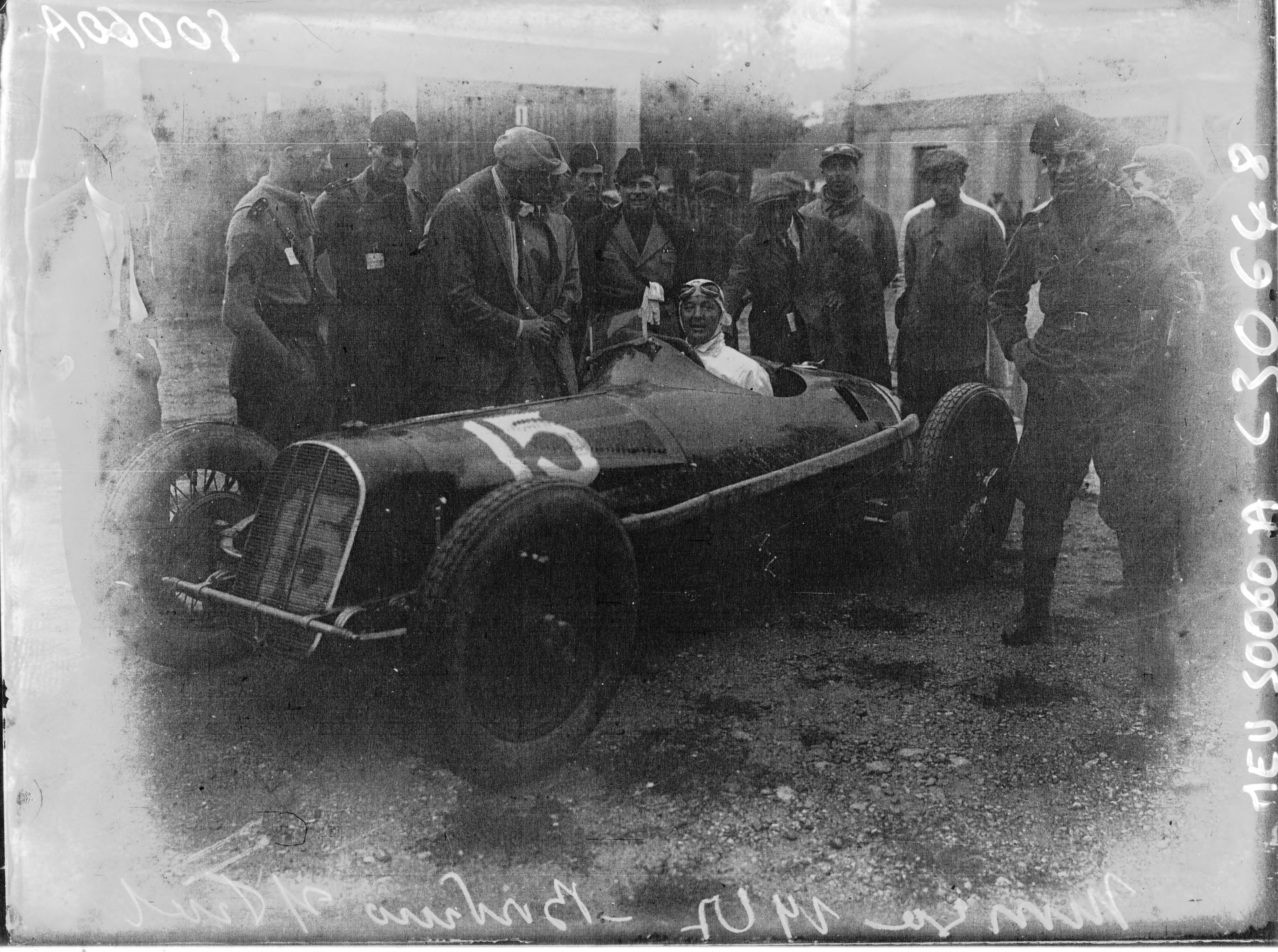 Pietro Bordino at the 1927 Milan Grand Prix with Fiat 806